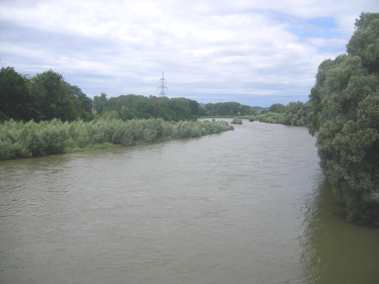 Drava River between Duplek and Maribor